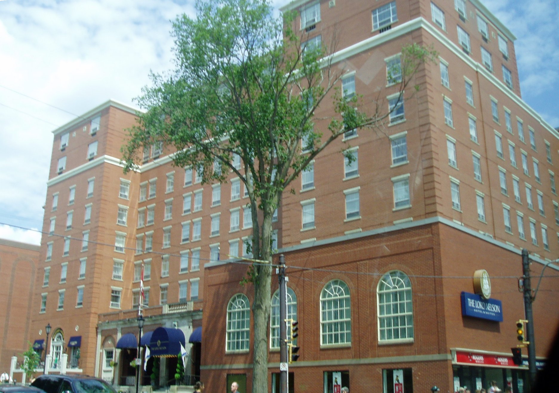 The Lord Nelson Hotel at the corner of South Park Street and Spring Garden Road in Halifax. Taken by SimonP